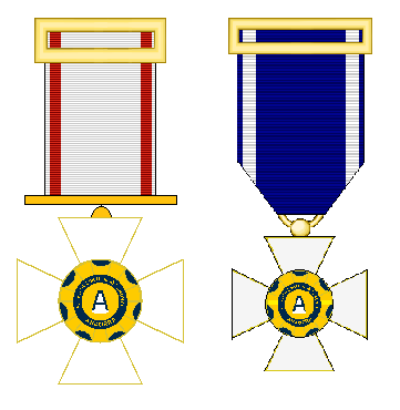 Variation between model 2011 and model 2015 of the Medal of Professional Merit of the Interparroquial Comission of Andorra